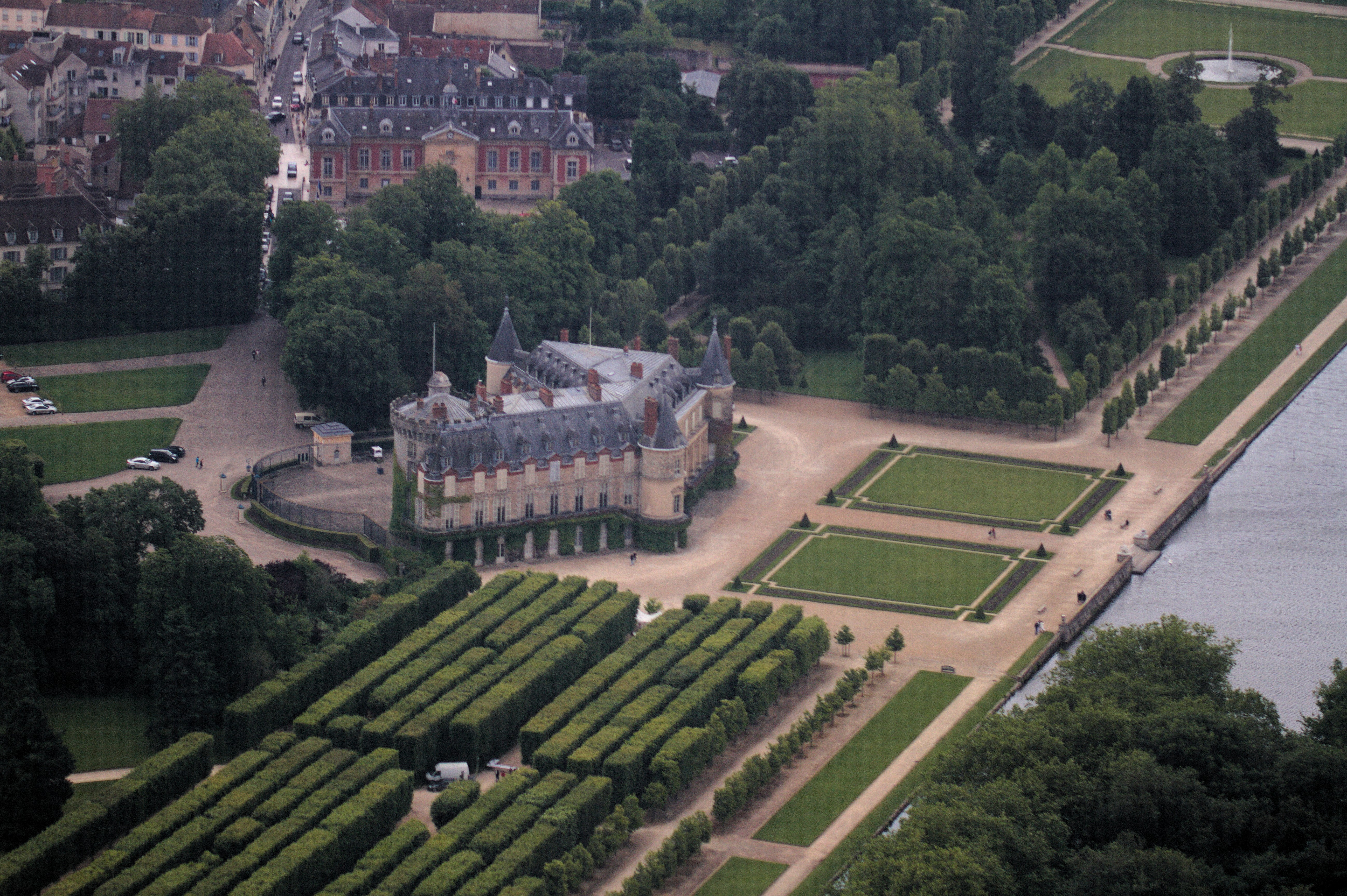 Aerial view of the Château de Rambouillet, Yvelines, France.